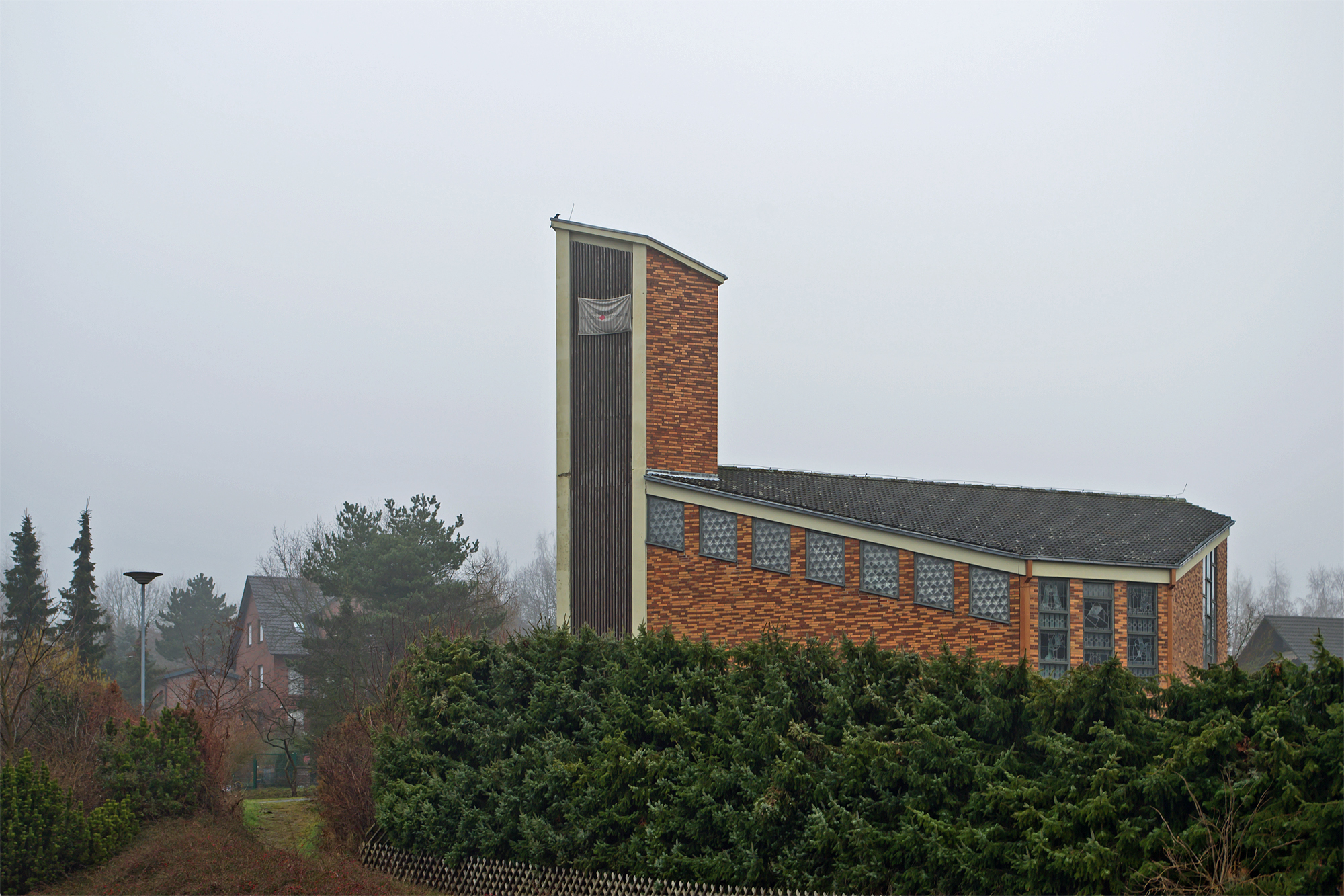 Former catholic church in the small town Hitzacker (district Lüchow-Dannenberg, northern Germany).